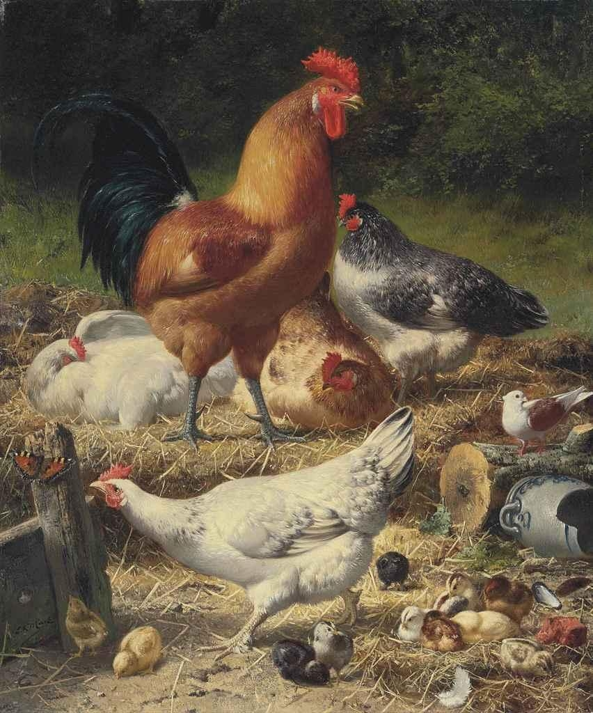 Chickens in a Farmyard